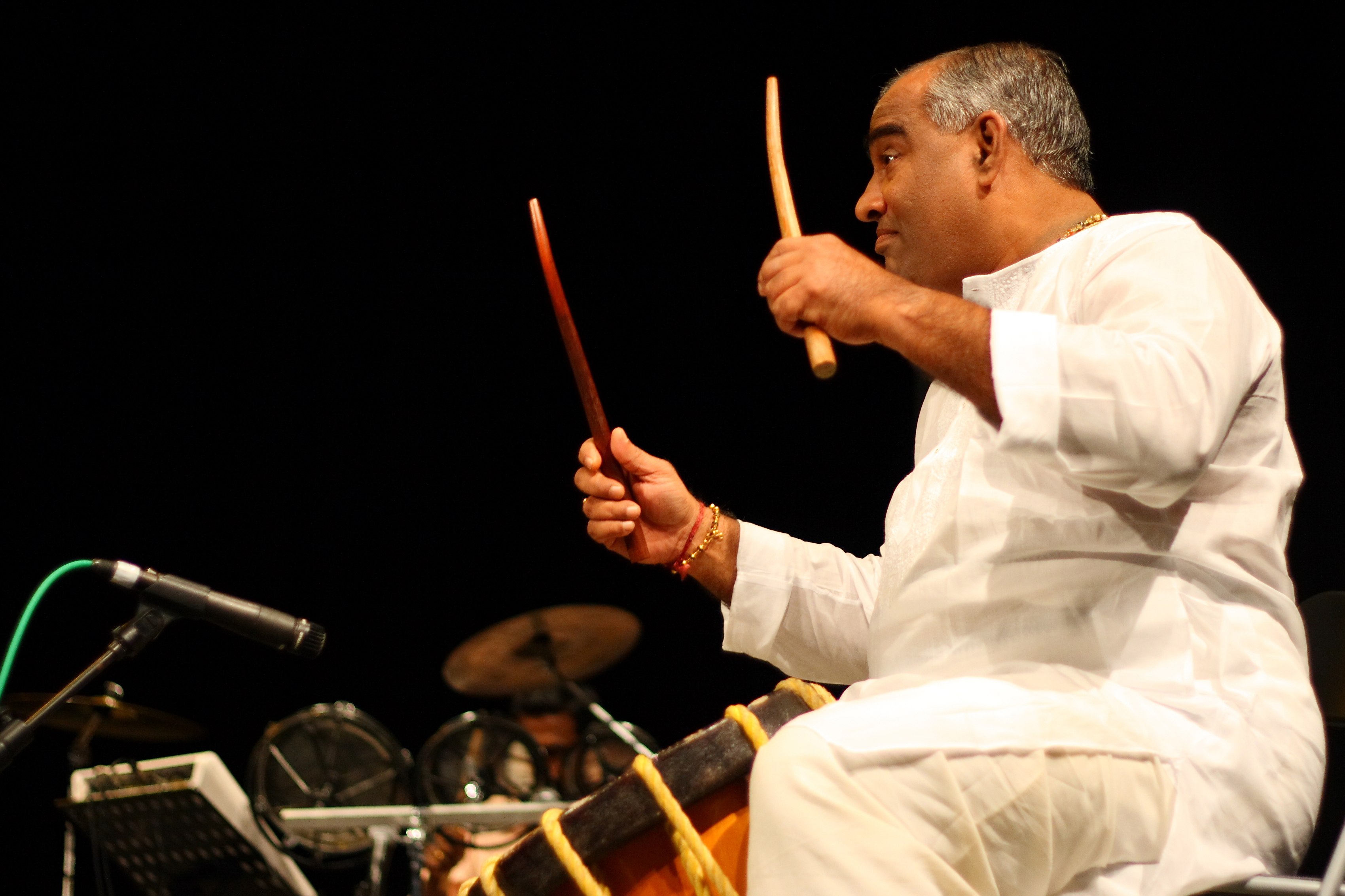 Mattannoor Sankarankutty Marar